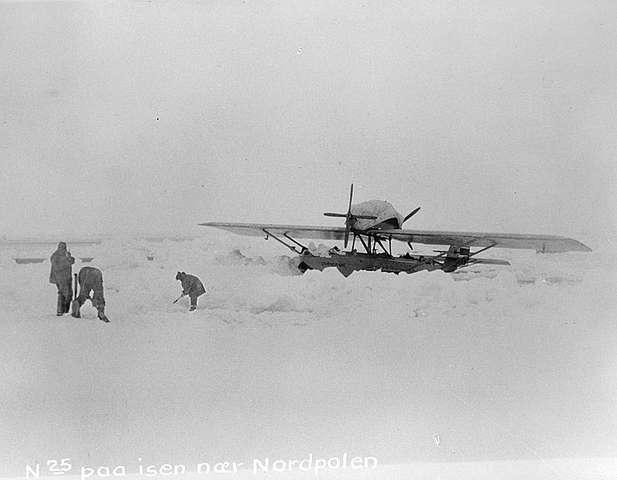 Roald Amundsen's N-25 Dornier Do J at 87° 43' North between 21 May and 15 June 1925